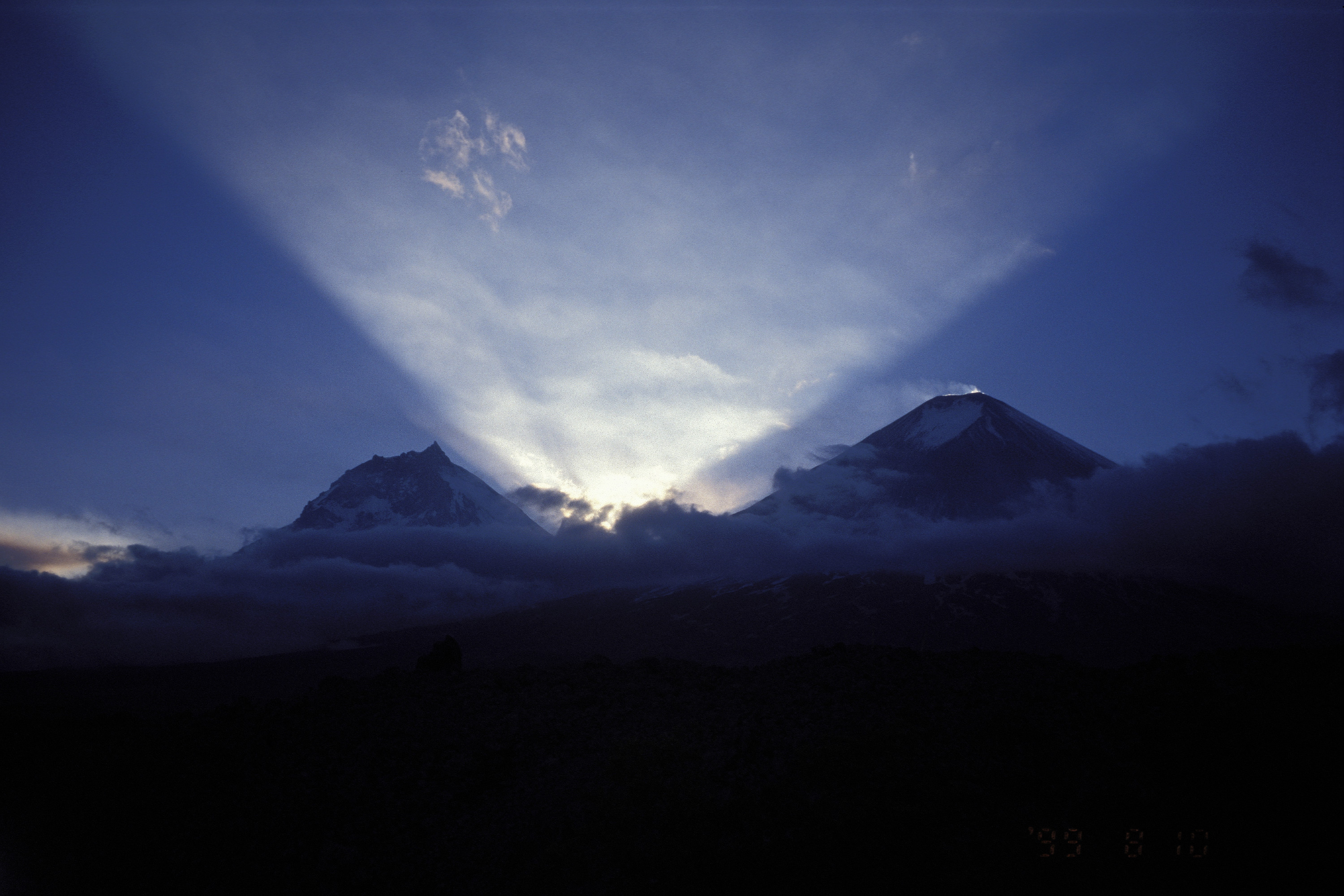 Kamen' and Kluchevskoy volcanoes This image is related to the protected area of Russia number 4110113